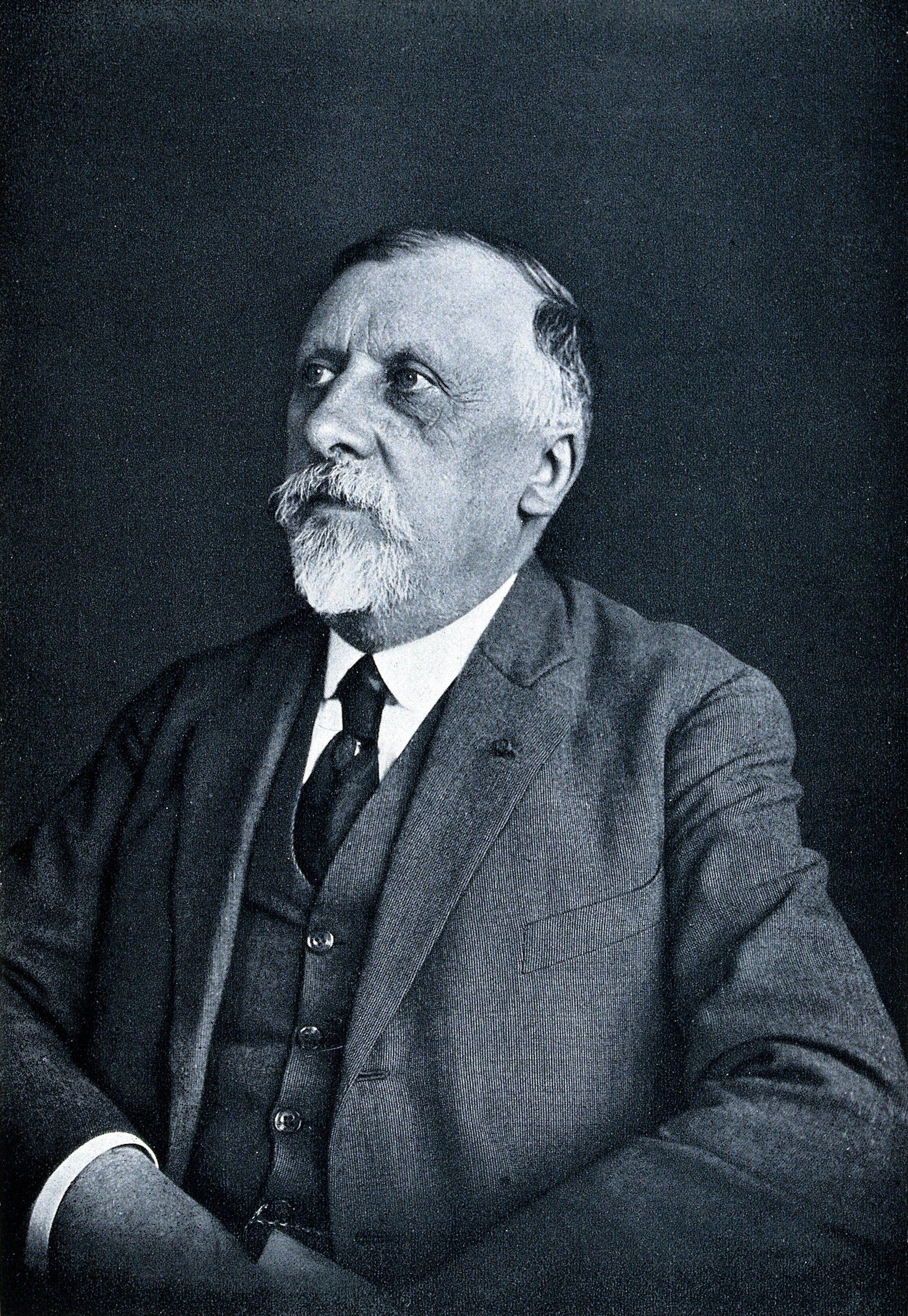 Félix Mesnil. Photomechanical print. Iconographic Collections Keywords: portrait prints